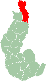 Location map of Miandrivazo region in Toliara province.